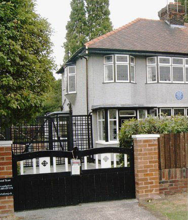 You are Here... John Lennon's Driveway Aunt Mimi's house, Mendips, on Menlove Ave. where John Lennon lived as a child...